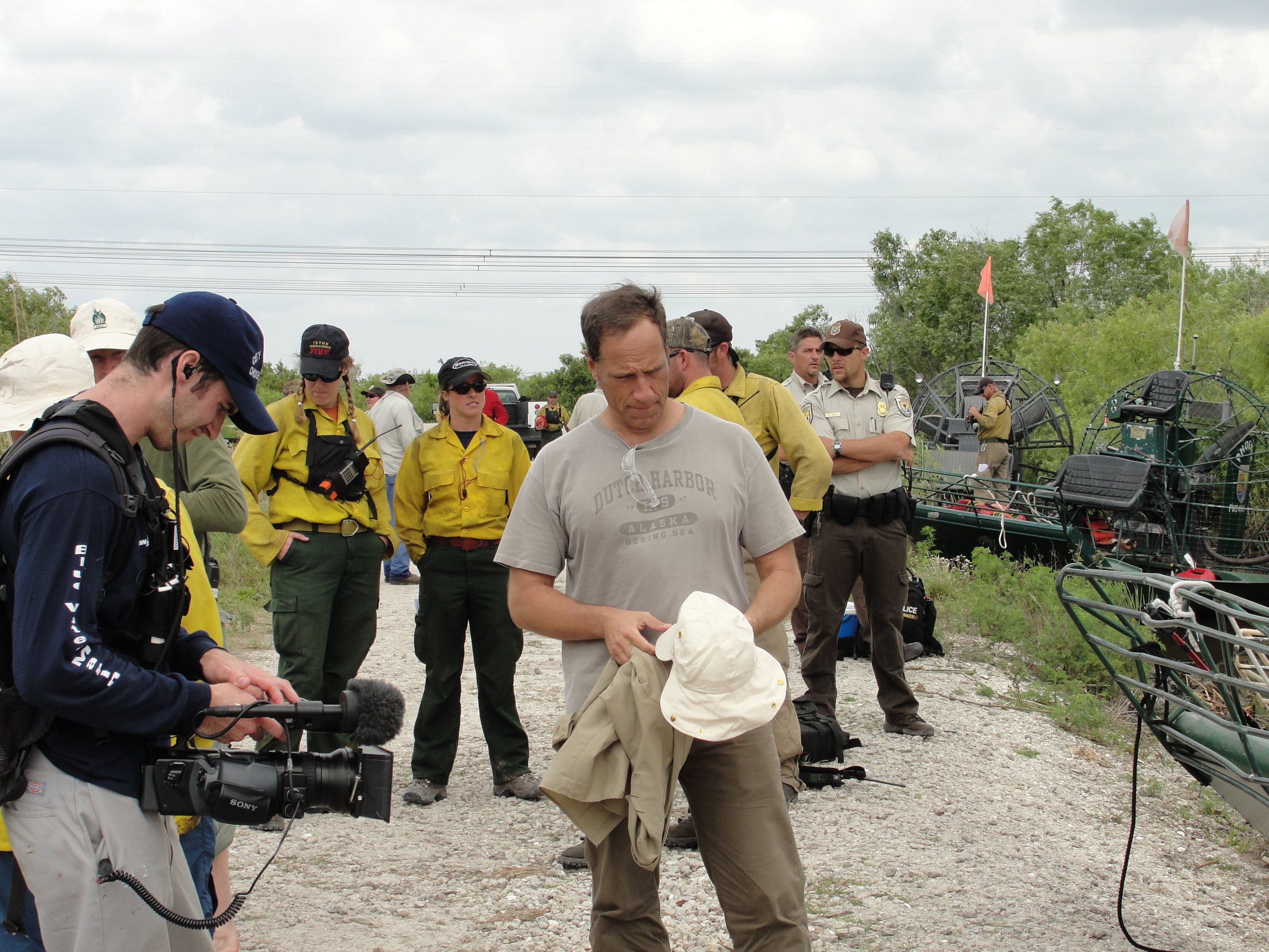 Between segments, Mike Rowe returned to a gravel road and parking area to change clothes and eat, but the cameras never stopped filming. Credit: Phil Kloer/USFWS April 15, 2010